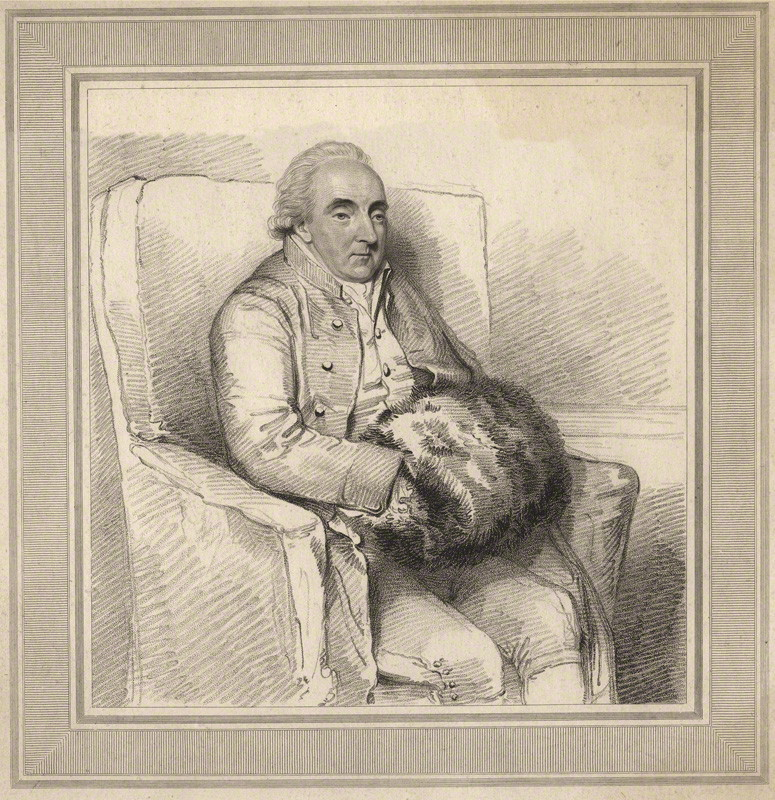 Portrait of Thomas Harley (1730–1804), English politician.